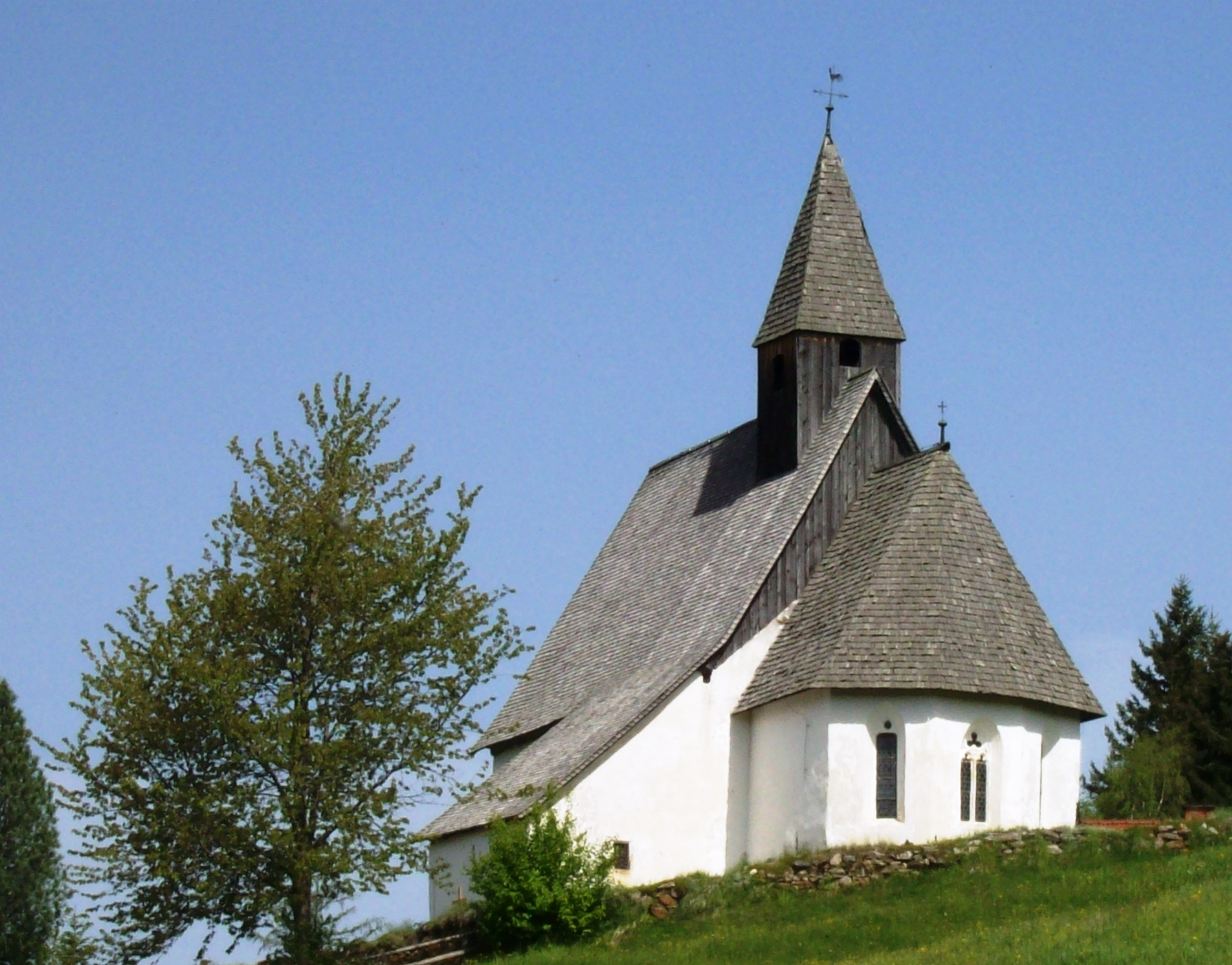 Kath. Filialkirche hl. Jakob und Friedhof